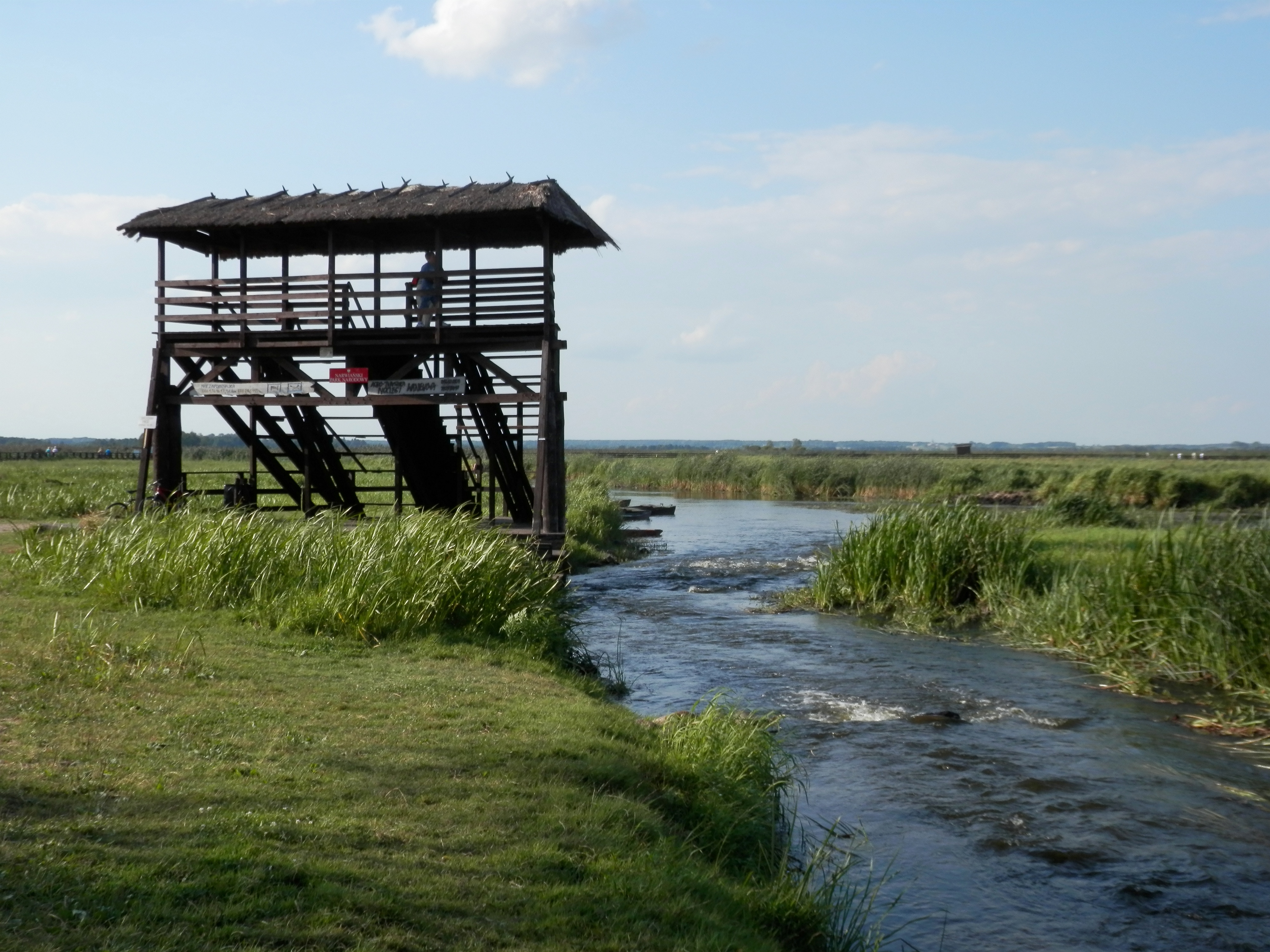 Narew river in Waniewo, Poland